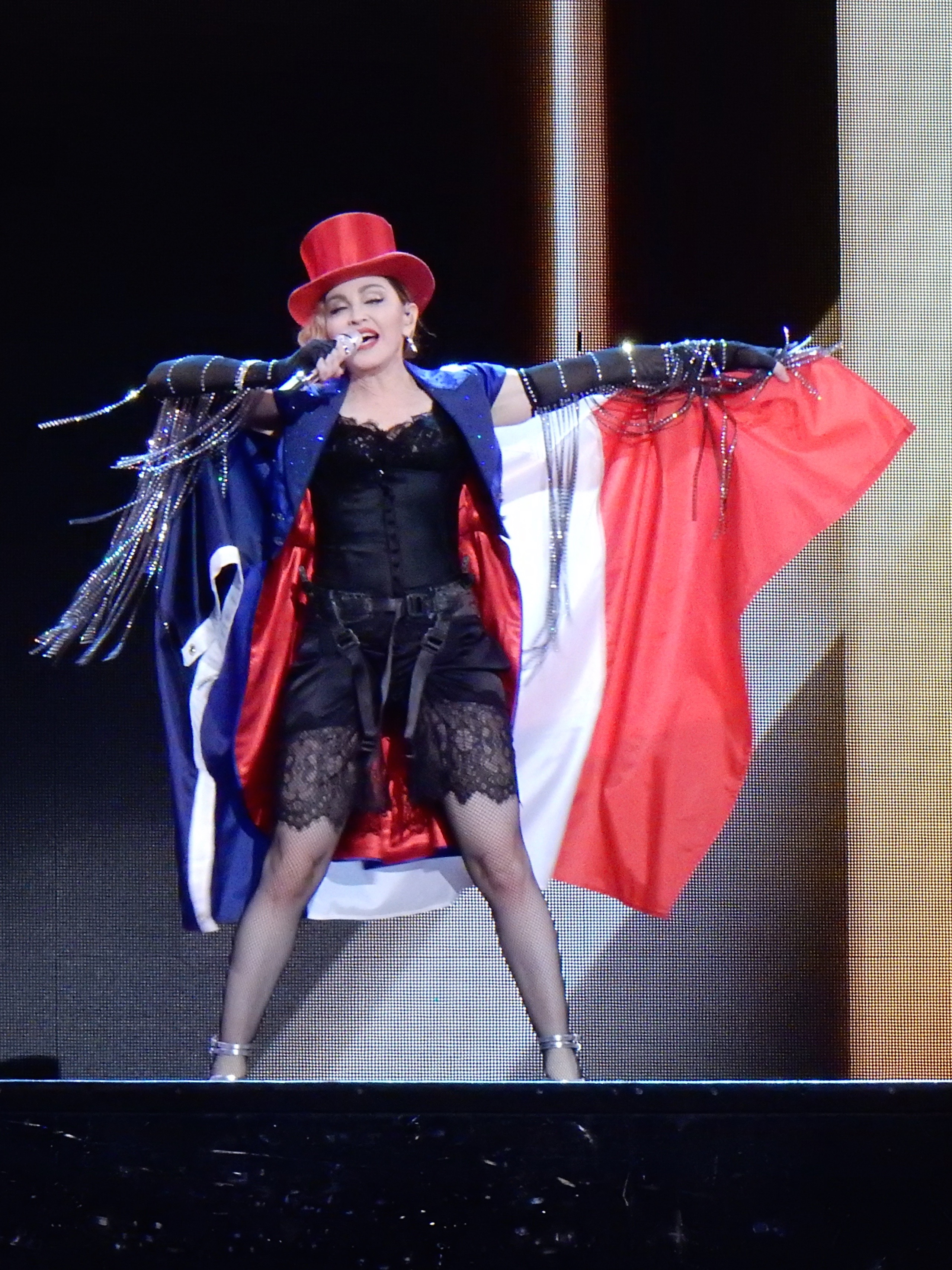 Madonna - Rebel Heart Tour 2015 - Paris 1